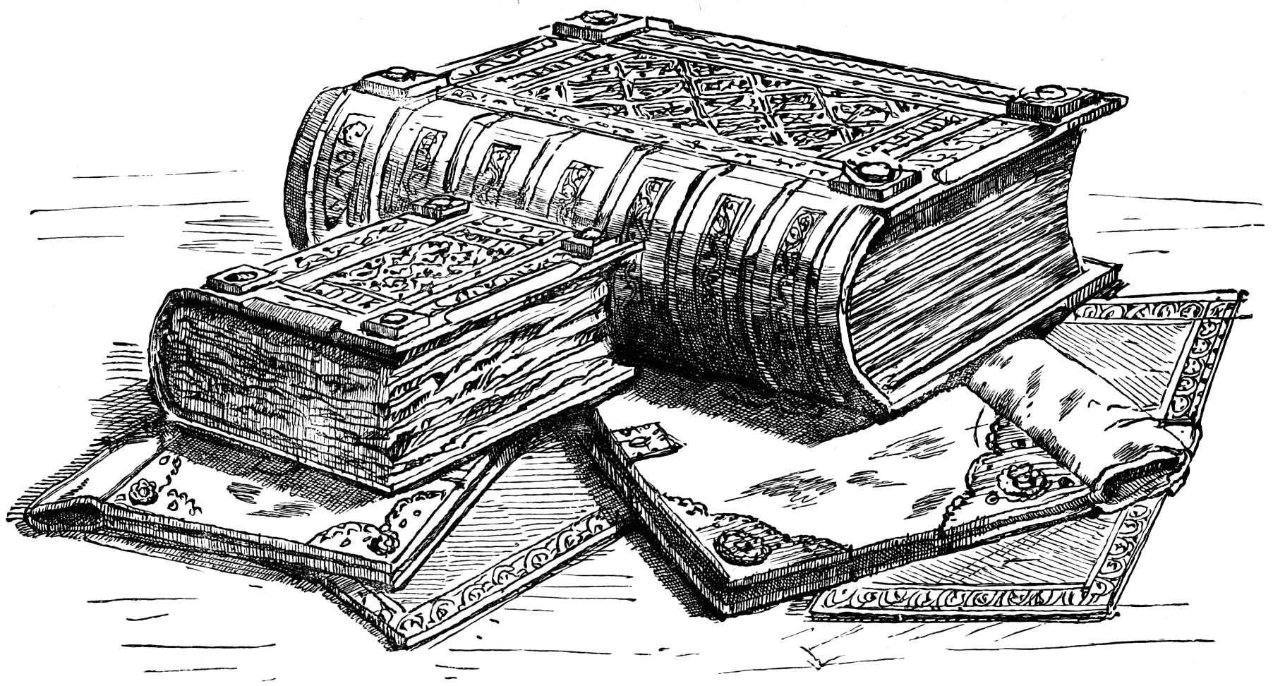 The Domesday Book from Andrews, William: “Historic Byways and Highways of Old England” (1900) ISBN 9781406797541[1]